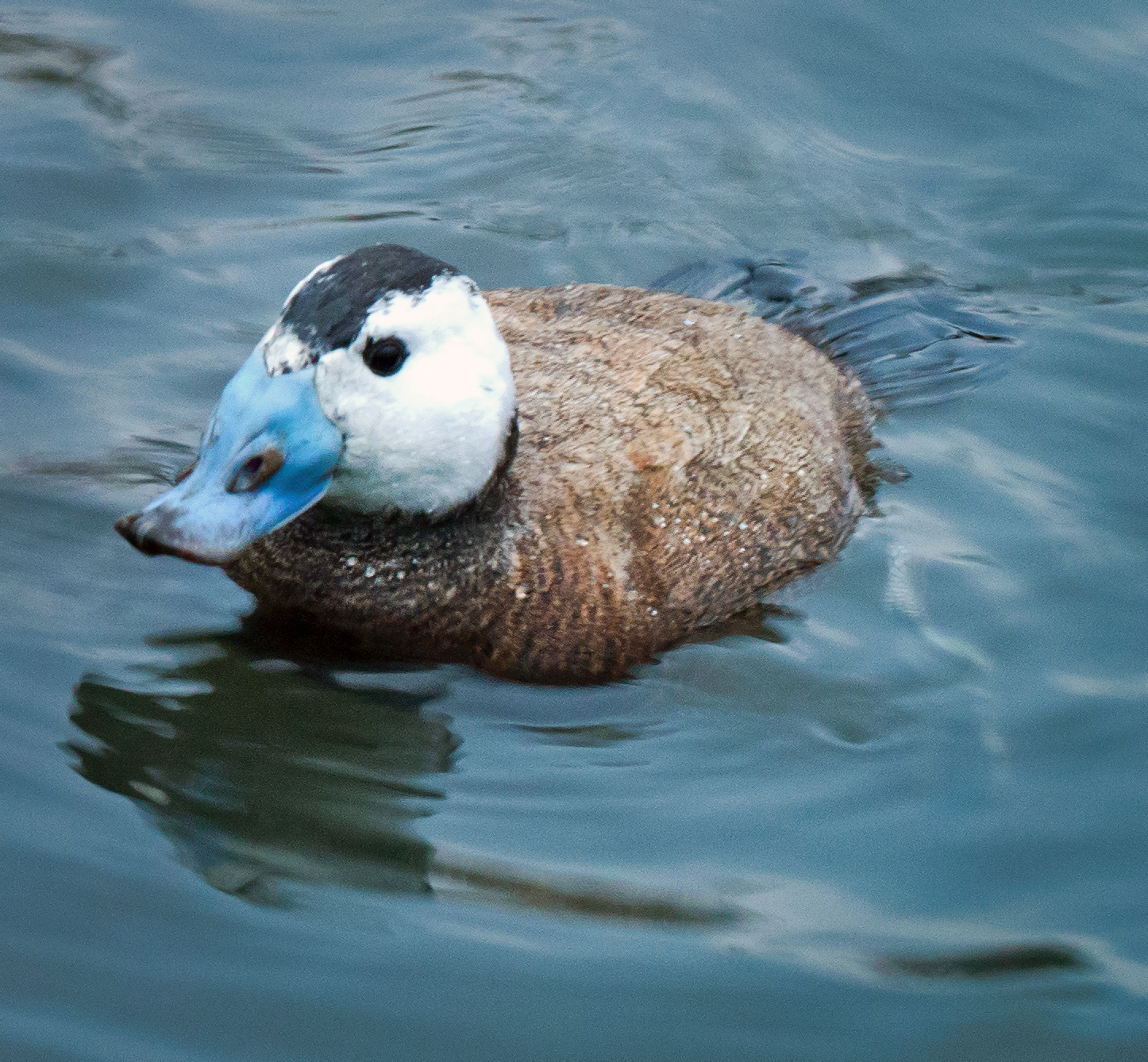 WhiteHeadDuck,WWT